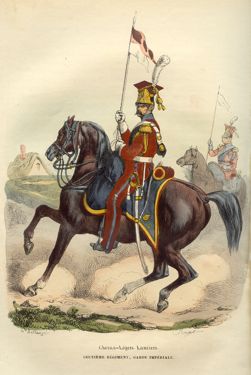 Light horse lancer from the 2nd Regiment (Red Lancers) of the Imperial Guard, part of the Grande Armée. From book of P.-M. Laurent de L`Ardeche «Histoire de Napoleon», 1843